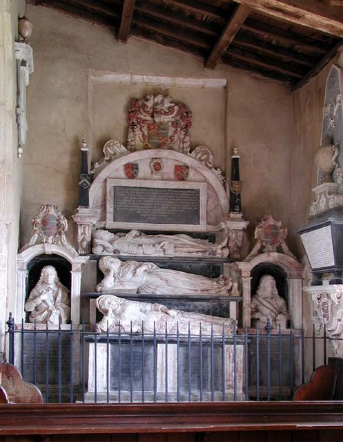 St Michael & All Angels, Edmondthorpe, Leics - Monument